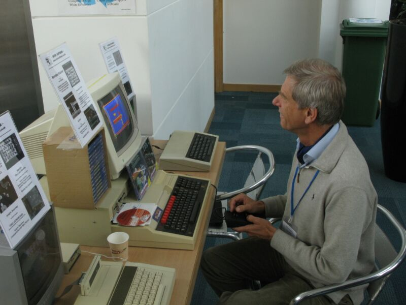 Hermann Hauser playing Retrosoftware's Blurp at the BBC Micro 30th anniversary in 2012